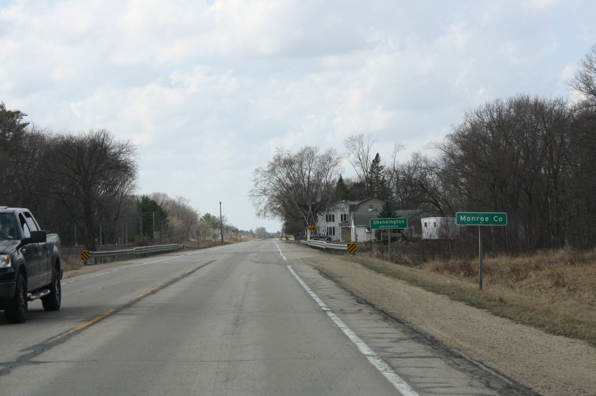 The sign for Shennington, Wisconsin and the sign for Monroe County, Wisconsin on Wisconsin Highway 21.